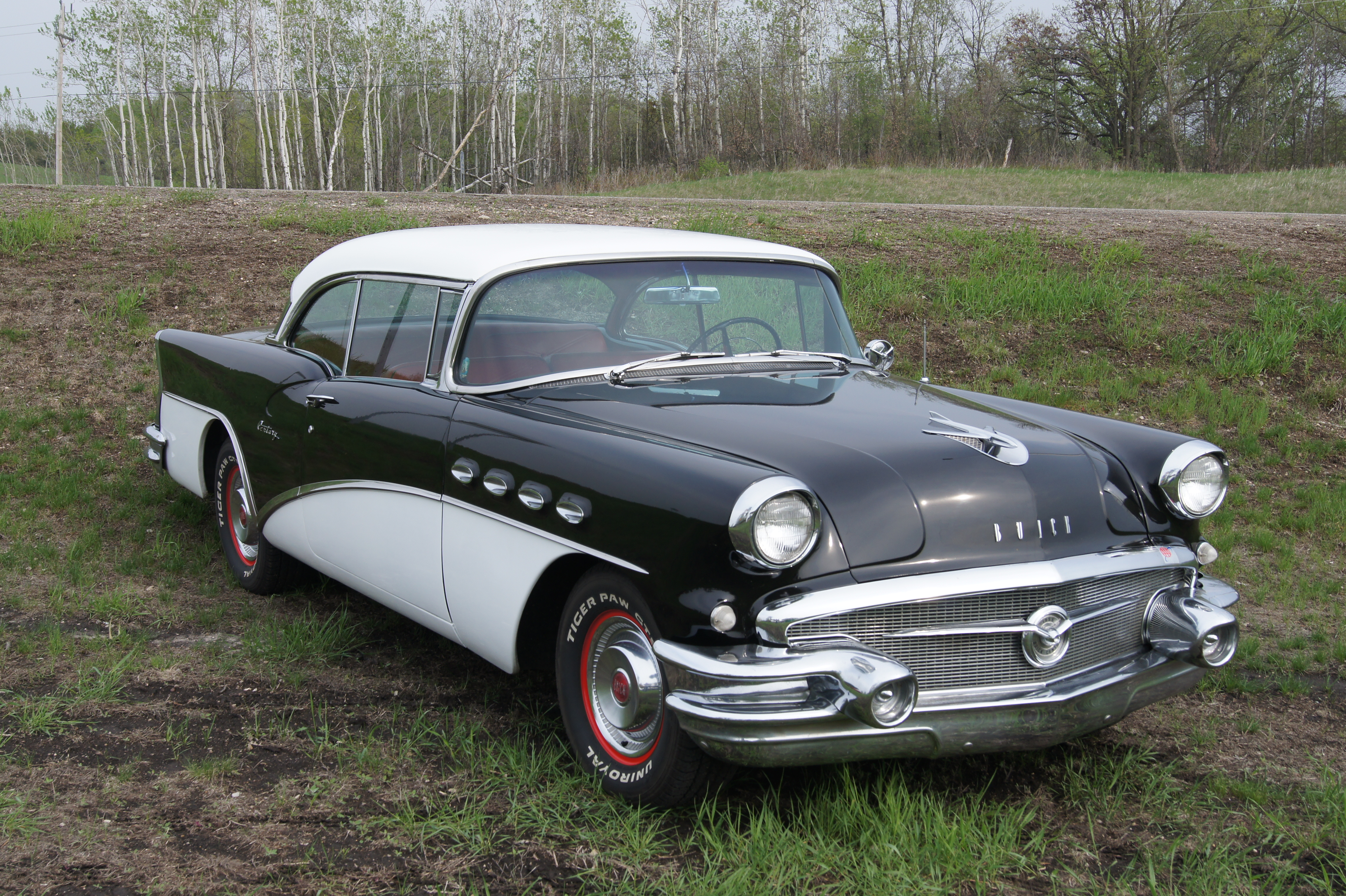 The evening before the Willmar Car Show & Swap Meet, Cars gather at the New London A&W Country Stop for a couple hours before cruising to the Kandi Mall in Willmar. Unfortunately this was the first year the cruise was rained out.